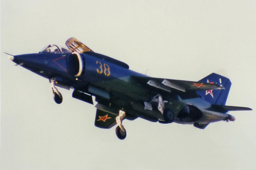 Russian Navy Yakovlev Yak-38 at 1992 Farnborough